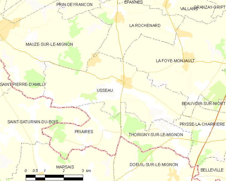 Map of French municipality Usseau